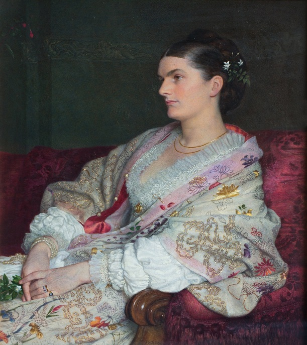 Mrs. George nee Elizabeth Blakeway by Frederic William Burton, private collection